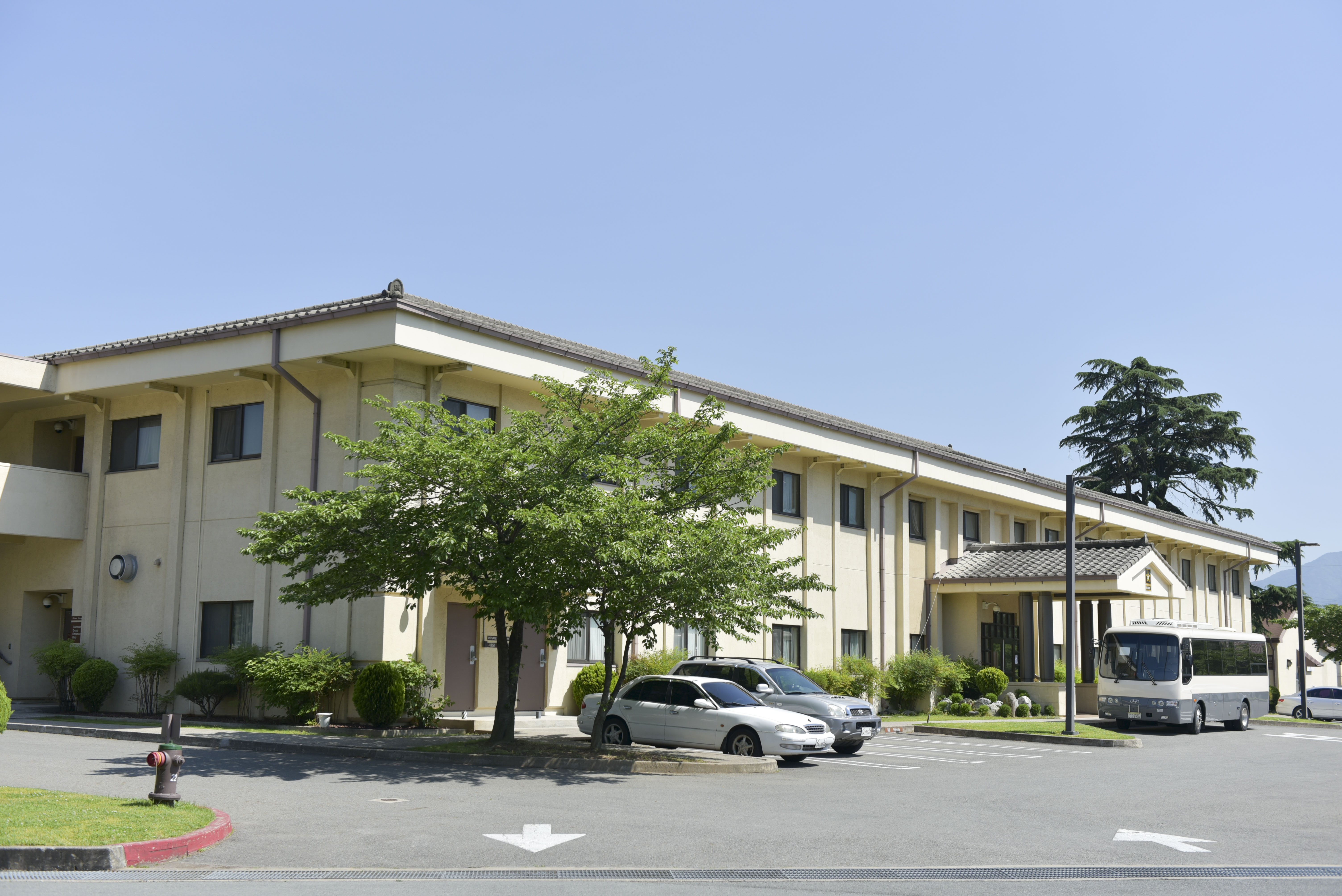 Photo of HQ, USAG Daegu